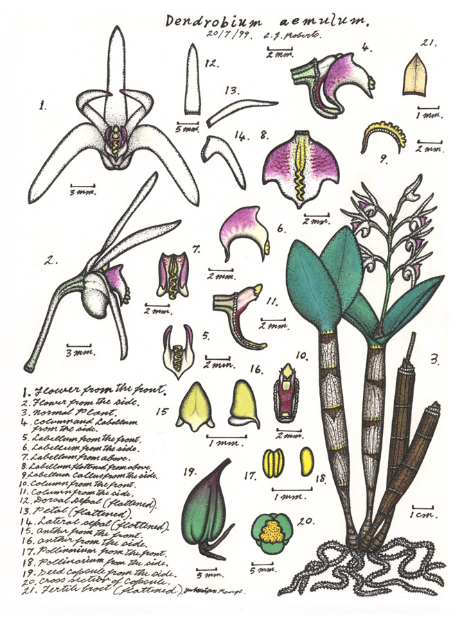 This image is one of a series by Lewis Roberts